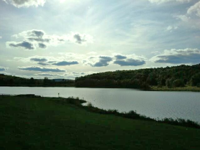 Arctic Lake, New York, USA. A beautiful 55 acre lake. Open to the public. Activities including swimming, boating, and fishing.